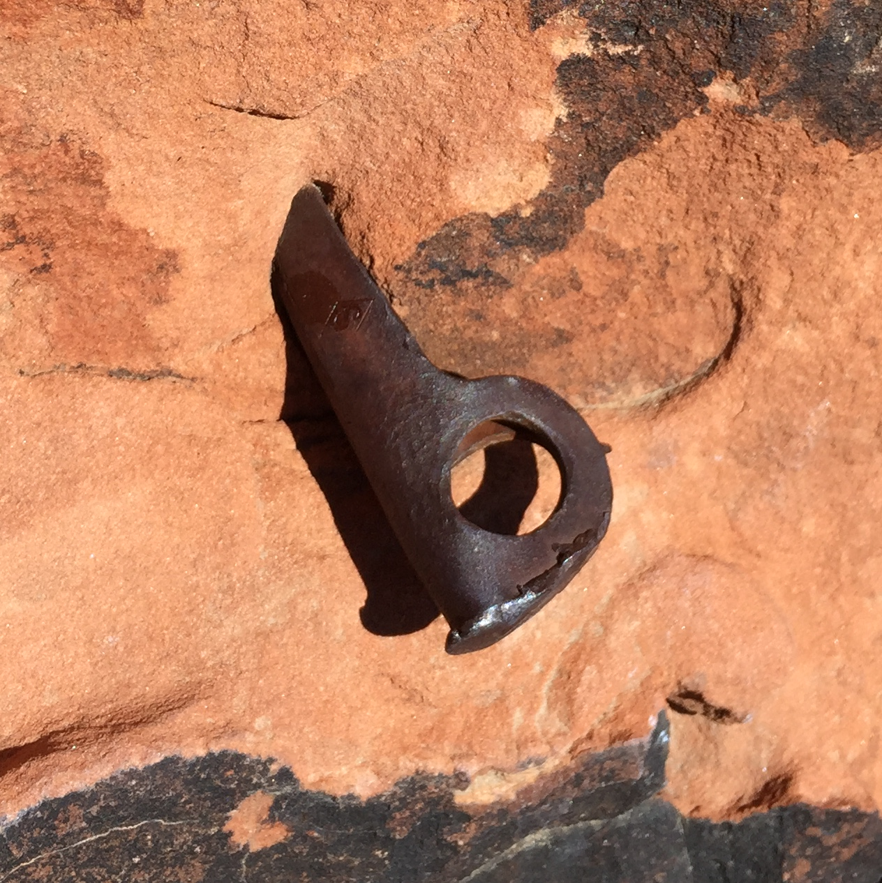 Red Rock Canyon National Conservation Area: Piton at Great Red Book Rock.